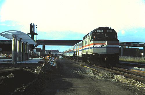 The Bakersfield-bound San Joaquin at Emeryville station in May 1994. The station had opened the year before to hastily replace the earthquake-damaged 16th Street station, but construction was not complete.